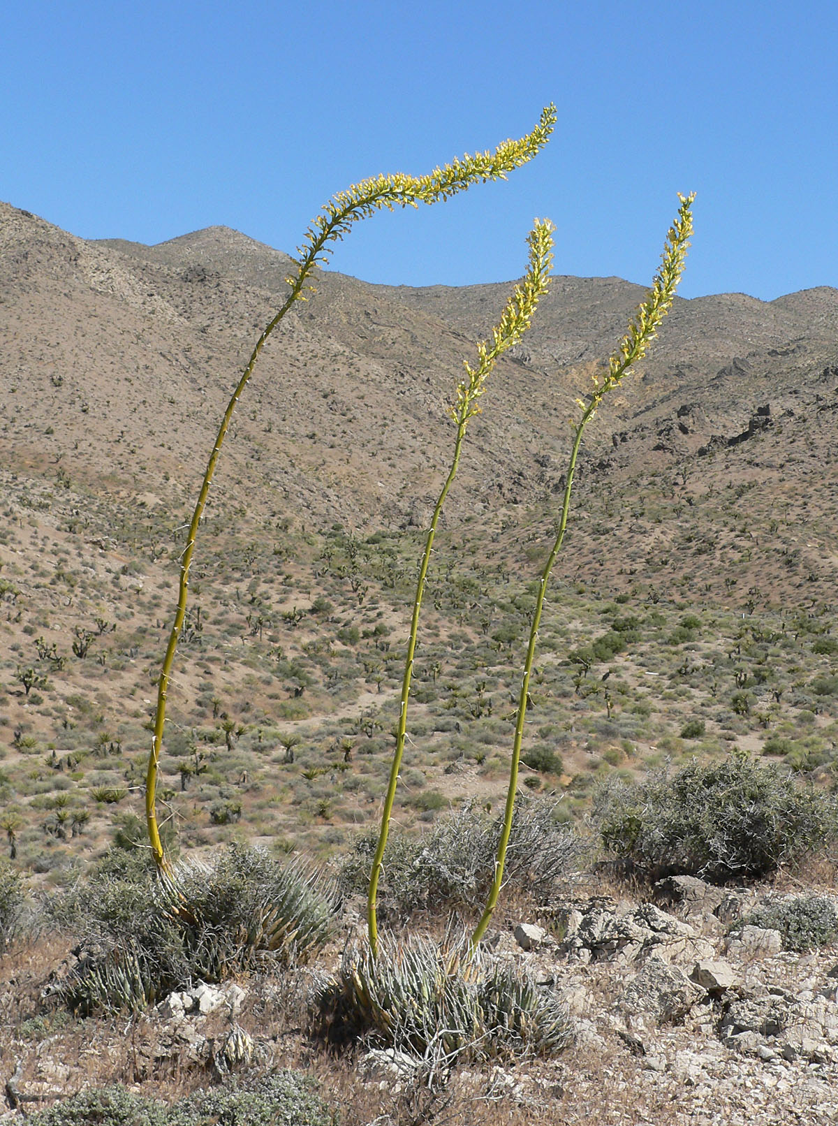 Agave utahensis at Columbia Pass, southern Spring Mountains, west of Goodsprings, Nevada